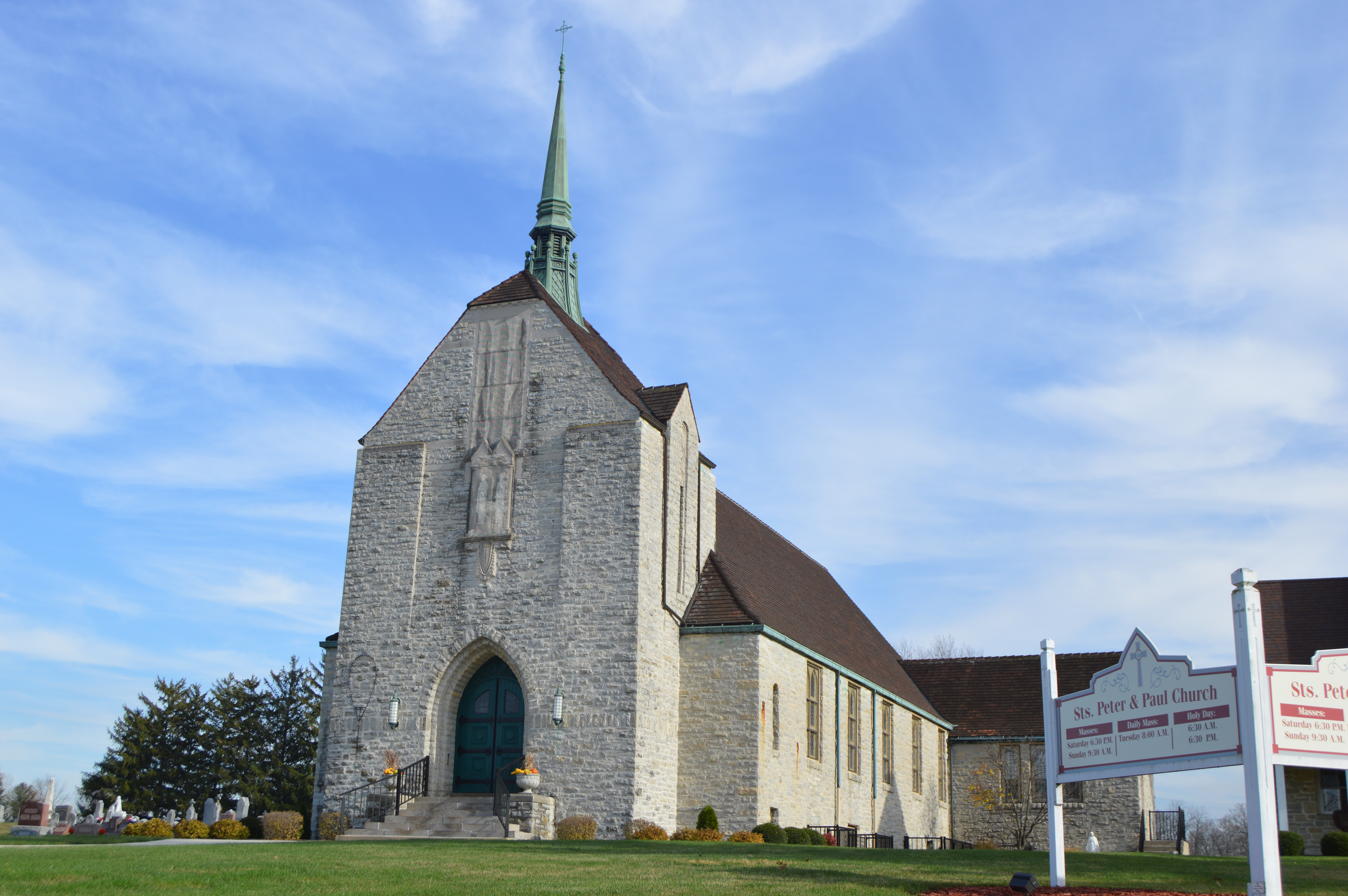 Front and southern side of SS Peter and Paul Catholic Church, located at 6788 State Route 66 in Newport, Ohio, United States. It was built in 1937.